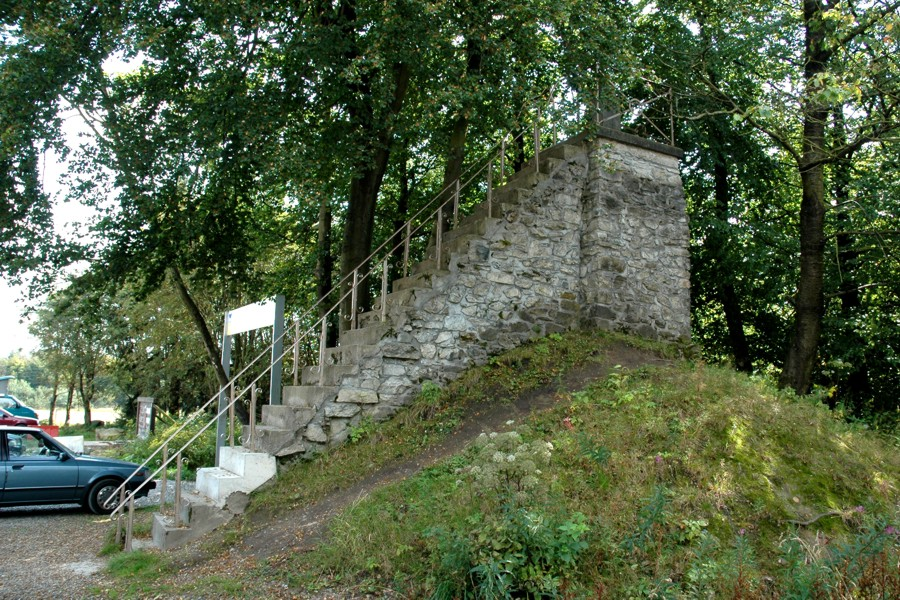 The Baltia Tower at the Signal de Botrange, which marks the highest point of Belgium. The tower was built to raise the natural height of the Botrange from 694 m (2,277 ft) to an even 700 m (2,297 ft). It was named after Baron Herman Baltia. Walon: Li bute Baltia, a Bôdrindje, c' est ene hourêye di pire, avou des montêyes, ki permete di monter a 700 metes hôt, li pus hôt pont del Walonreye, et pår del Beldjike